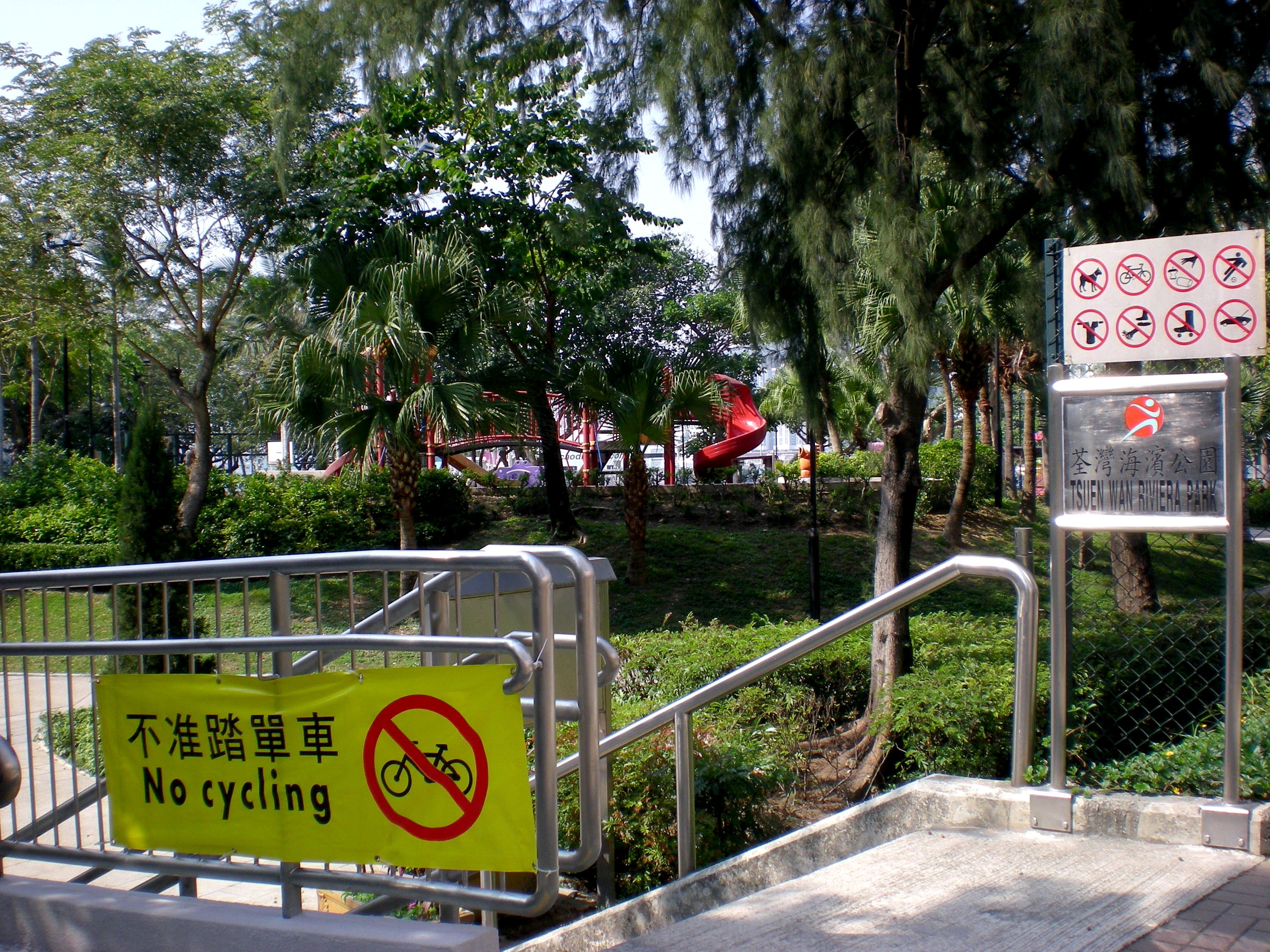 Tsuen Wan Riviera Park , Hong Kong